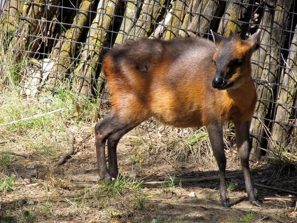 An absoulutly beautifully-colored duiker. A cool combo of red and blue tints.